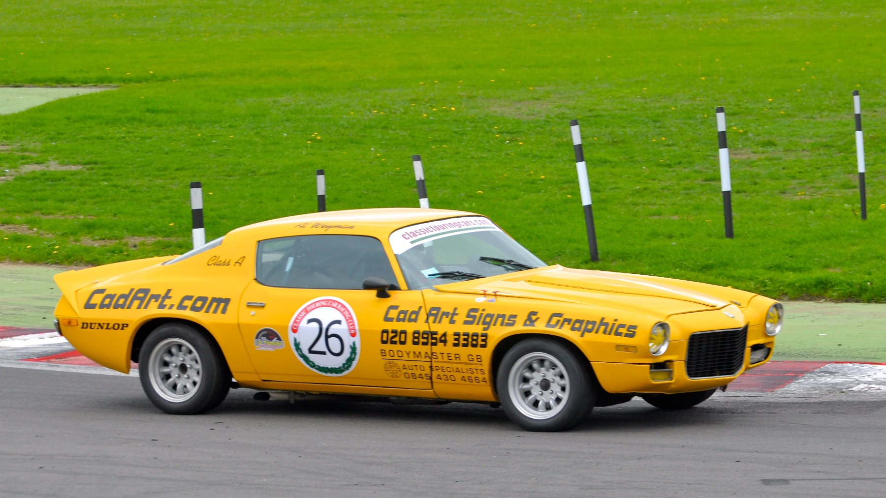 Classic Group One, Touring Car Championship, Allen Weyman, Chevrolet Camaro Z/28